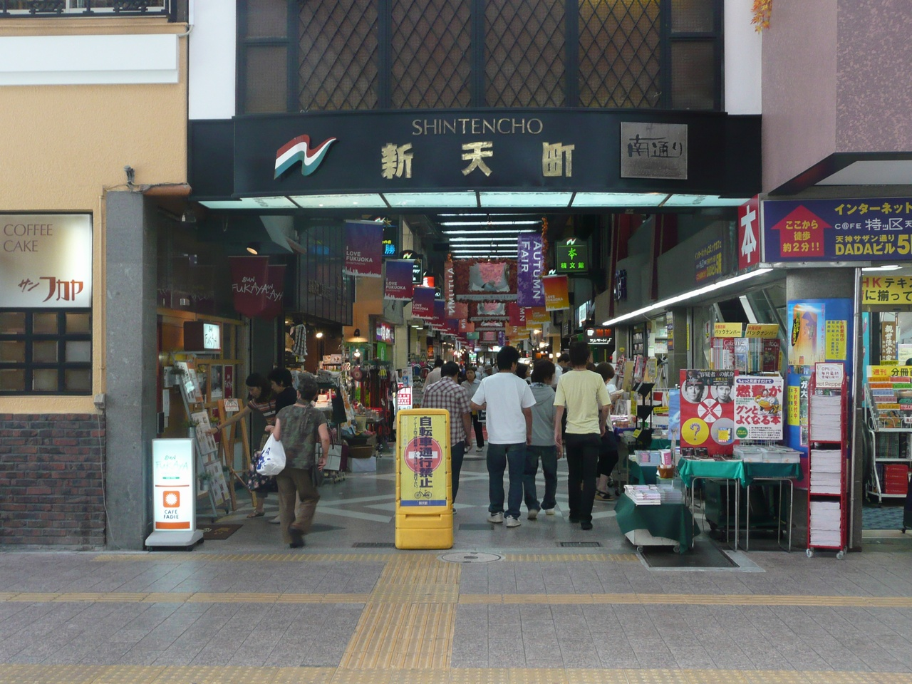 Shintencho (Tenjin, Fukuoka, Japan)